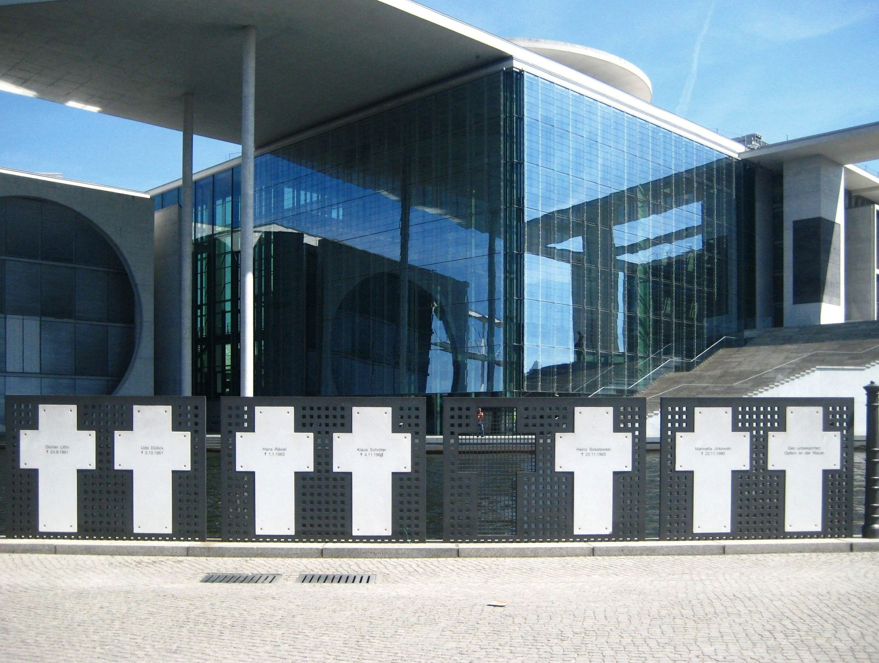 Memorial crosses for victims of the Berlin Wall at the bank of the Spree in Berlin with the Marie-Elisabeth-Lüders-Haus in the background.